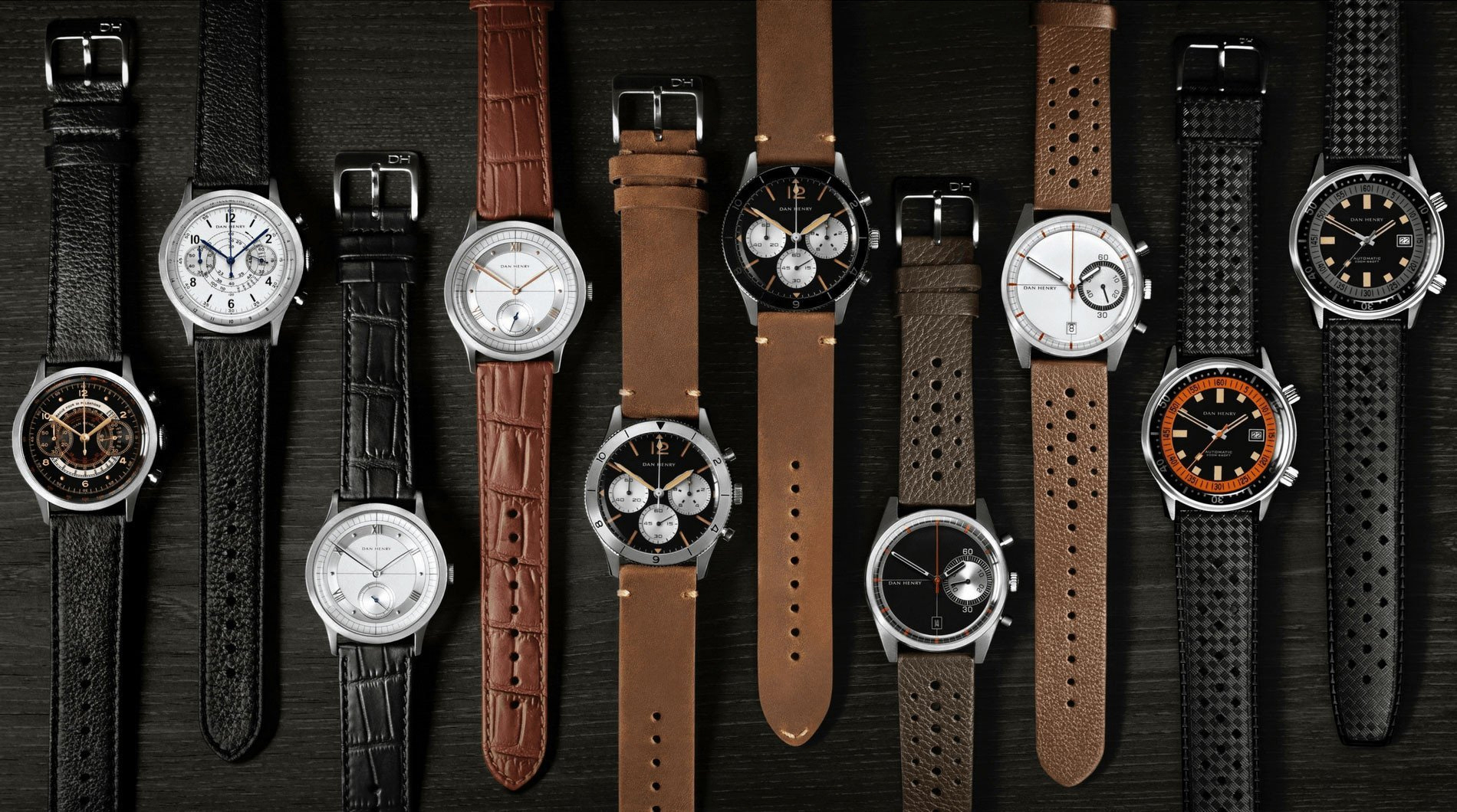 The first five models released by Dan Henry Watches, each produced in two versions. In September 2016, the company released (from right): the 1970 Diver in 44mm diameter, with minute rings in grey or orange; the 1968 “Dragster” chronograph with dials in black or white; the 1963 Pilot Chronograph with bezel rings in black or stainless steel; and the 1947 Dress Watch, with two band colors. In January 2017, Henry added a fifth watch: the 1939 Military Chronograph (far left) in two versions with different colors and measurement devices on the dial. In December 2017, Henry modified the 1970 Diver model by releasing a smaller version with the same features and colors as the original, but in a 40mm diameter. Each watch in the Dan Henry collection is produced in quantities equal to the year of the model name; for example, 1,963 of the 1963 chronograph were manufactured.